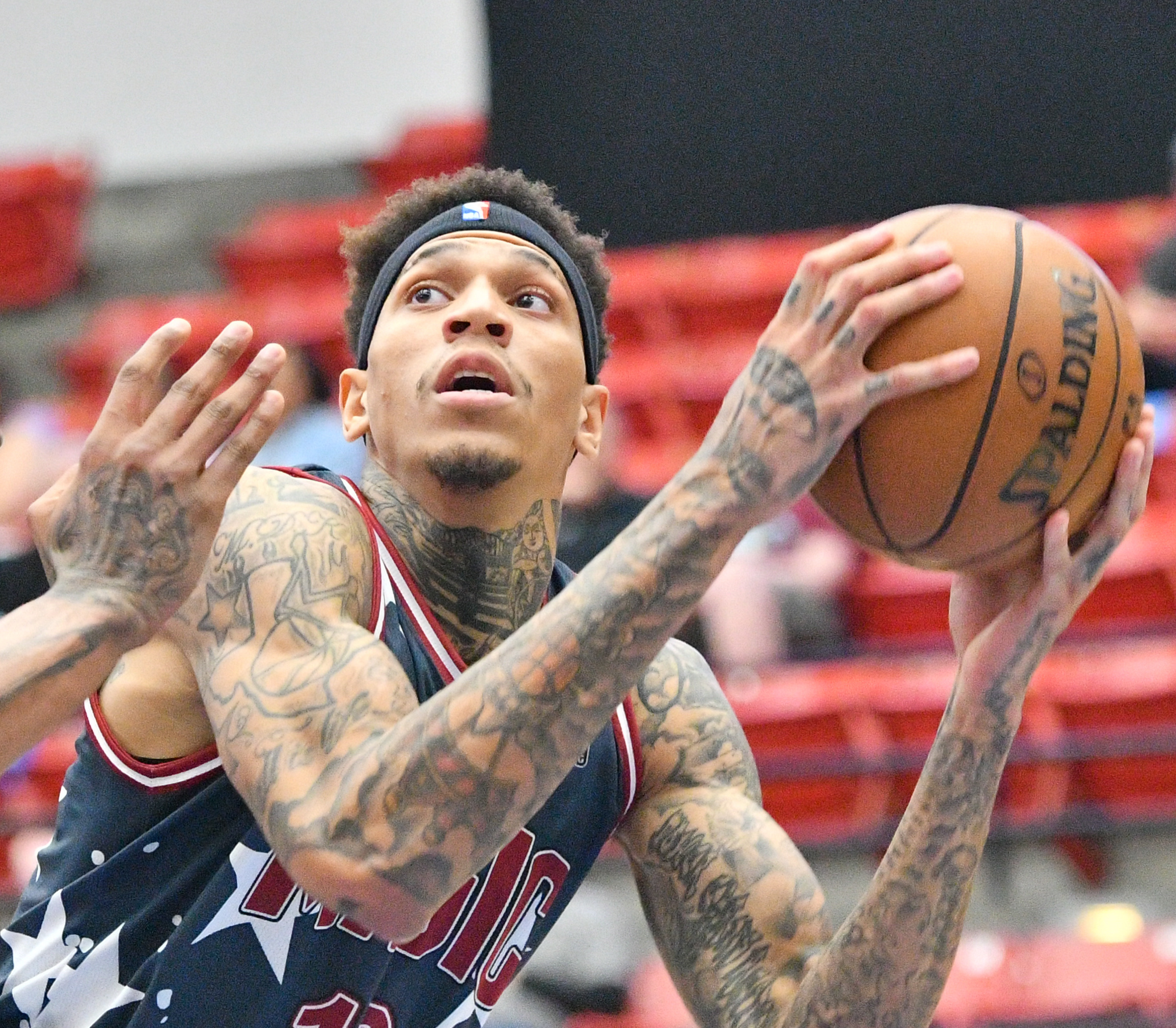 Mike Keyser, Kenny Wooten. Lakeland Magic vs Westchester Knicks. RP Funding Center. Lakeland, Fla. Jan. 11, 2020. (Photo by Tom Hagerty.)